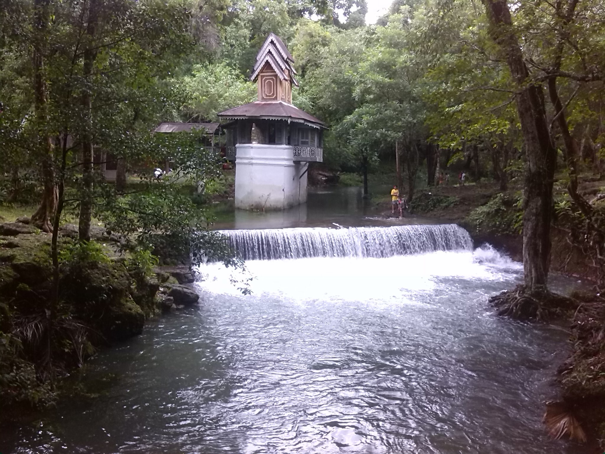 Jon Jon Ja Forest Monastery Waterfall, Mudon, Mon State မြန်မာဘာသာ: ဂျုံးဂျုံးကျ တောရ ရေတံခွန်၊ မုဒုံ၊ မွန်ပြည်နယ်